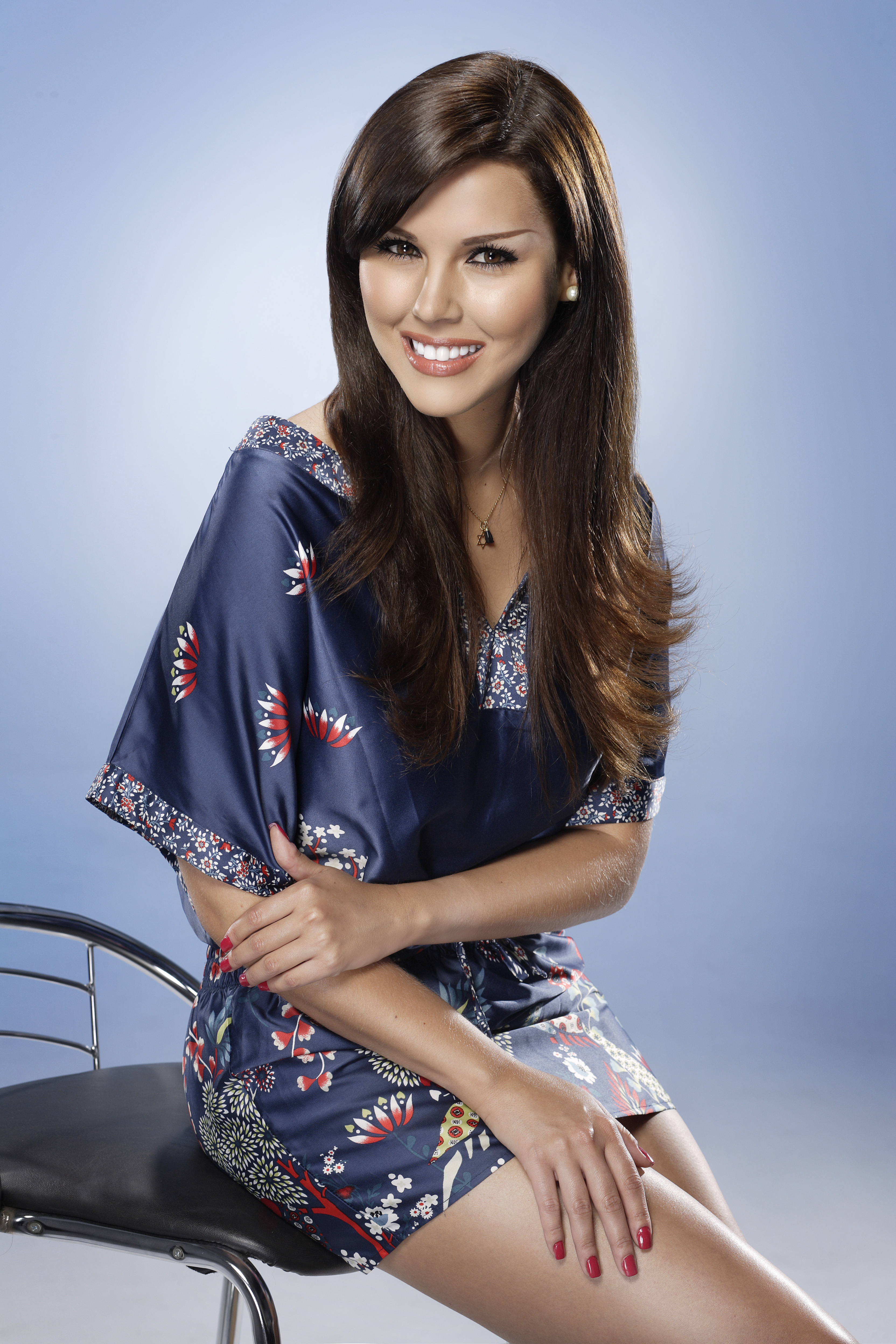 Desiree Ortíz (born December 28, 1987 in Caracas, Venezuela) is a television host, model and journalist.